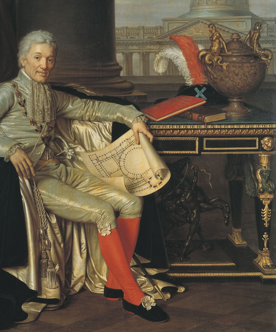 Portrait of Alexandr Sergeevich Stroganov(1733-1811)